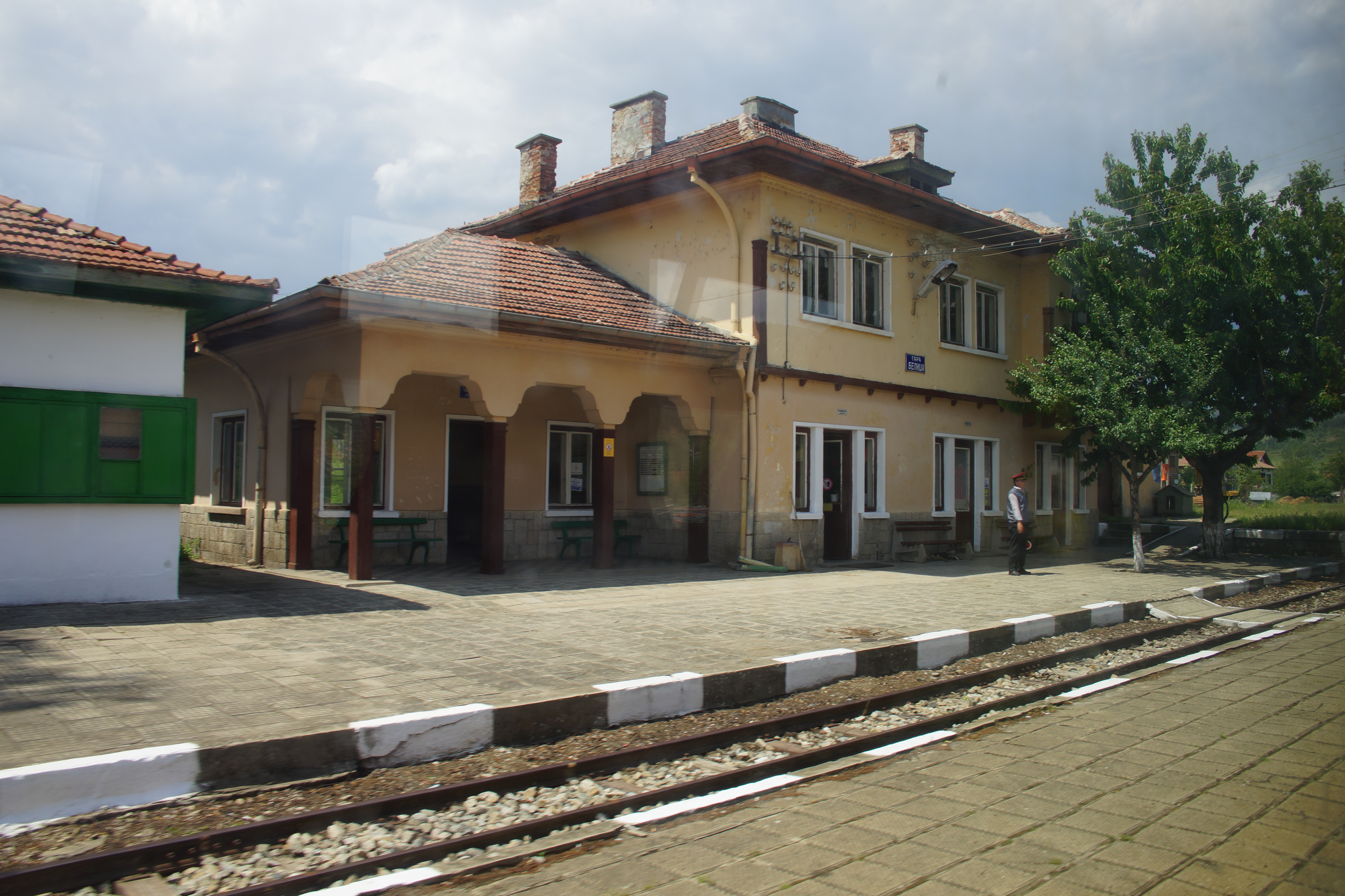 Belitsa train station view from a train.